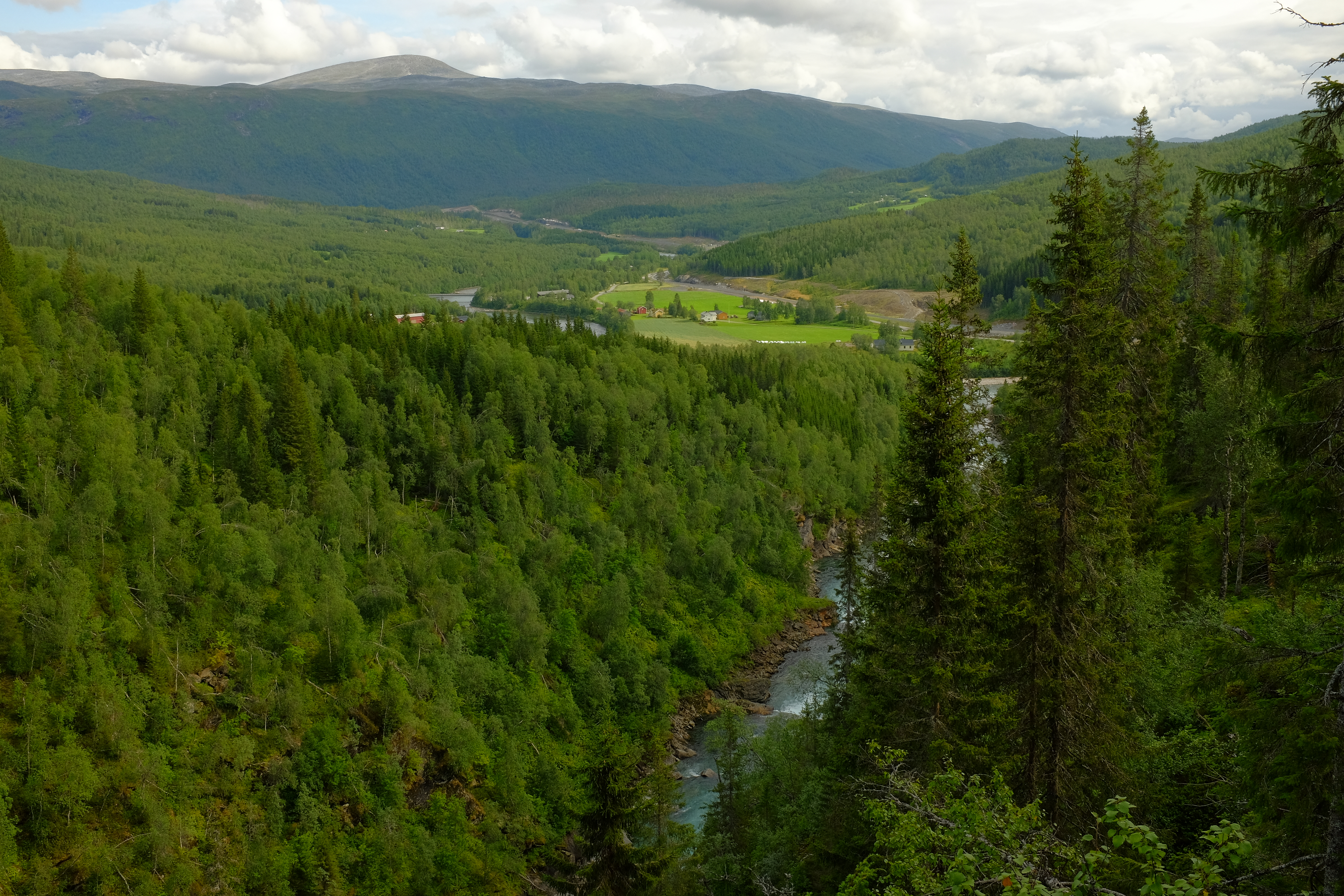 Bjøllånes in Dunderlandsdalen seen from Berglia. Europavei 6 goes through the valley.